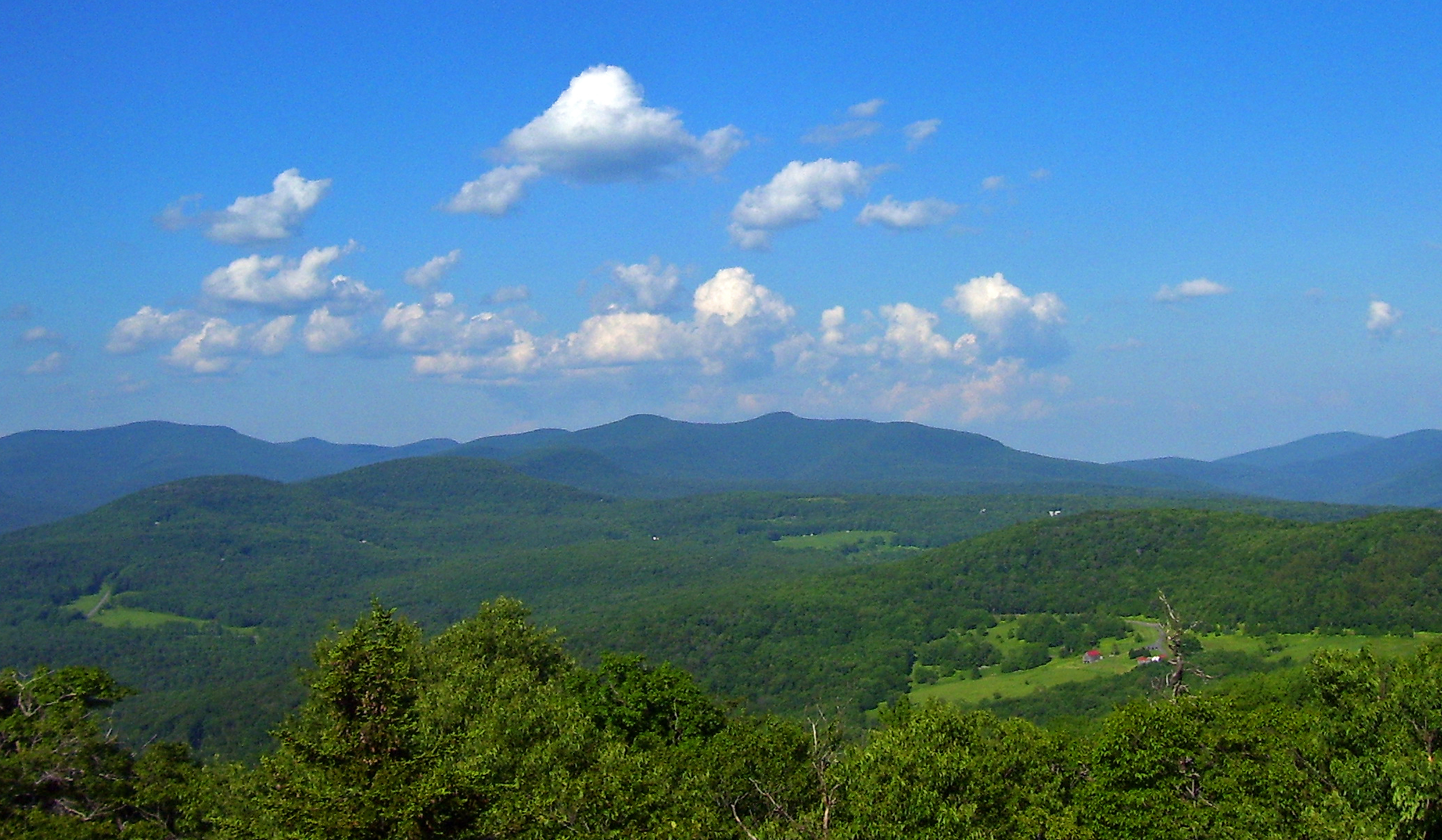 View of southern Catskill High Peaks to the north of the Red Hill Fire Tower, Denning, NY, USA